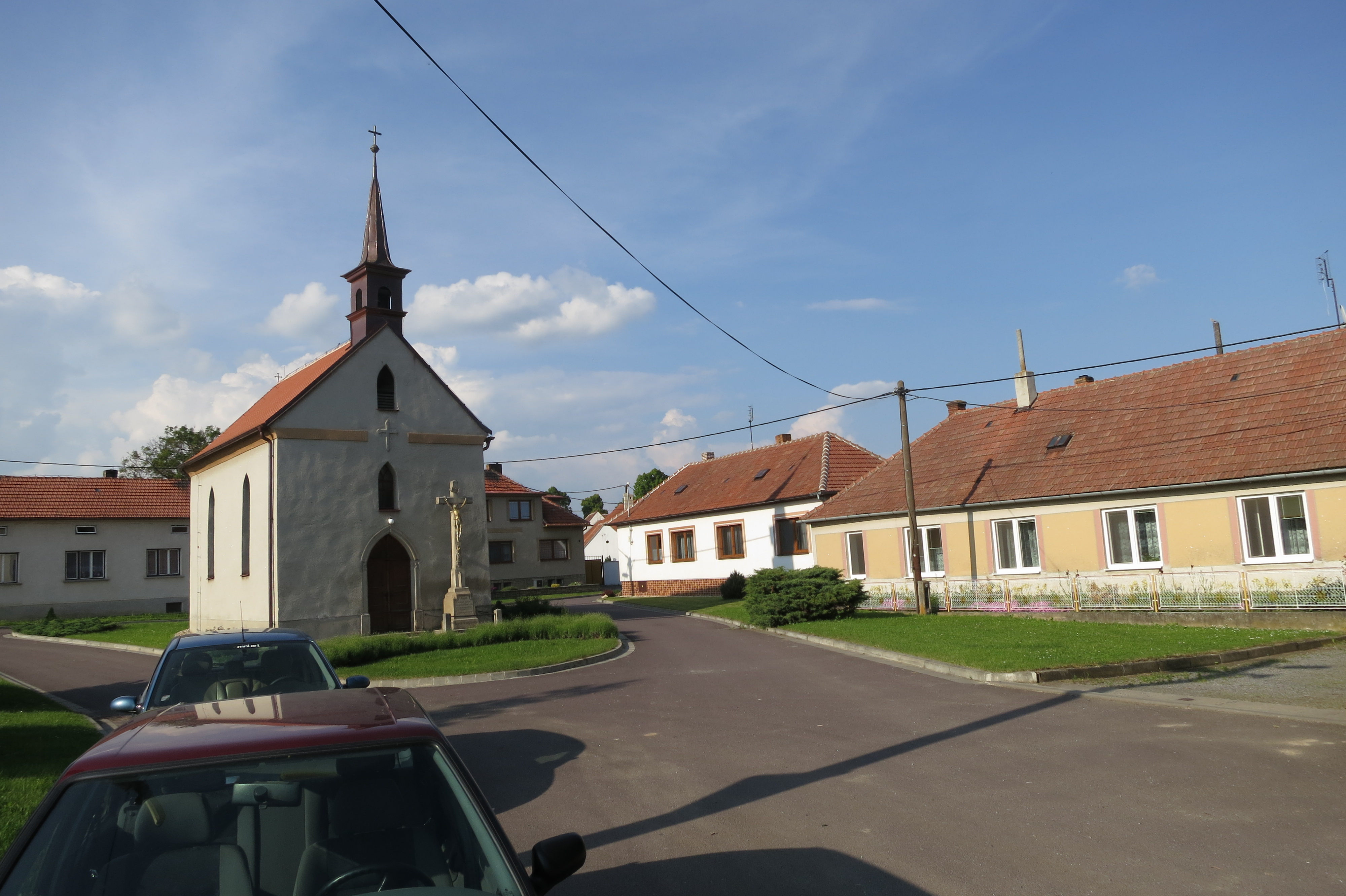 Center of Pálovice, Třebíč District.